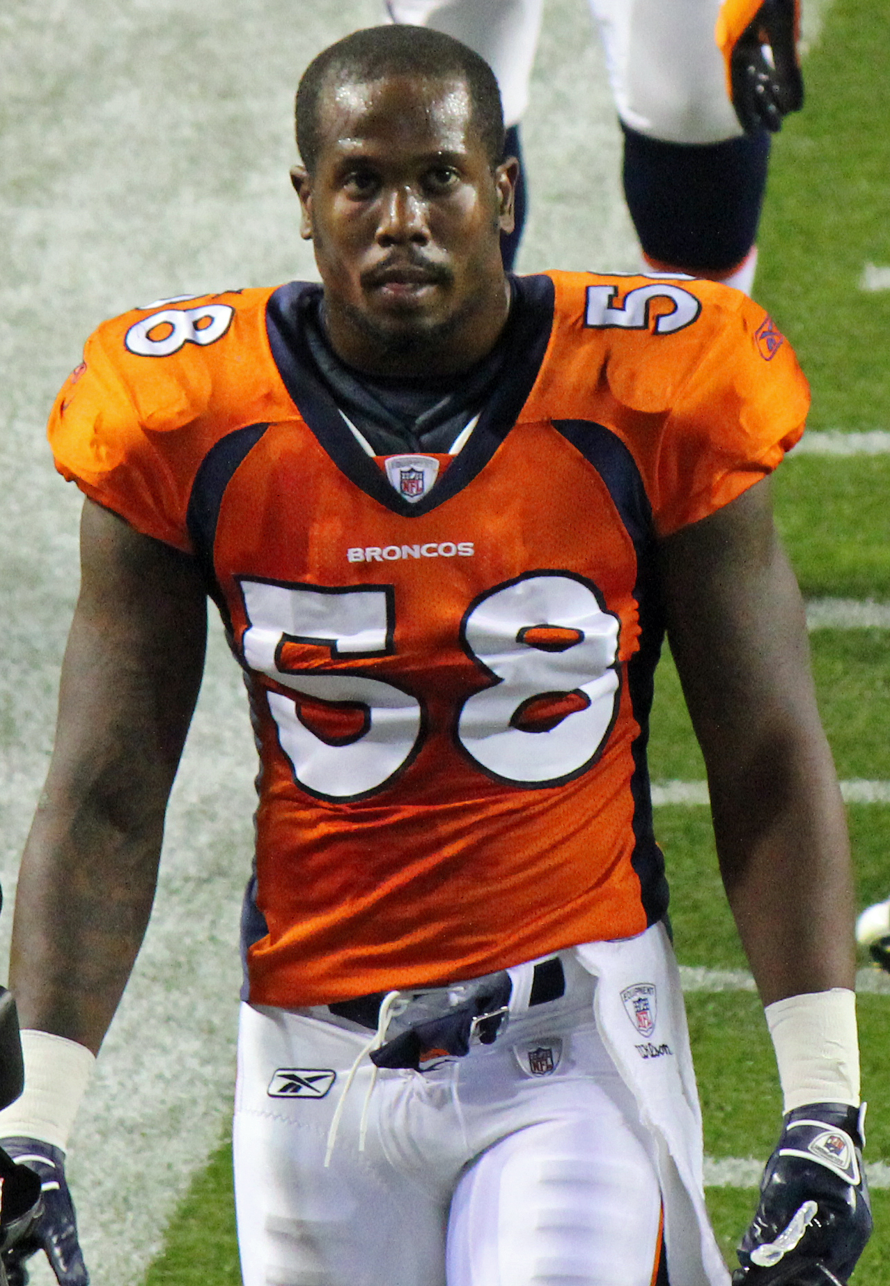 Von Miller, a National Football League player.